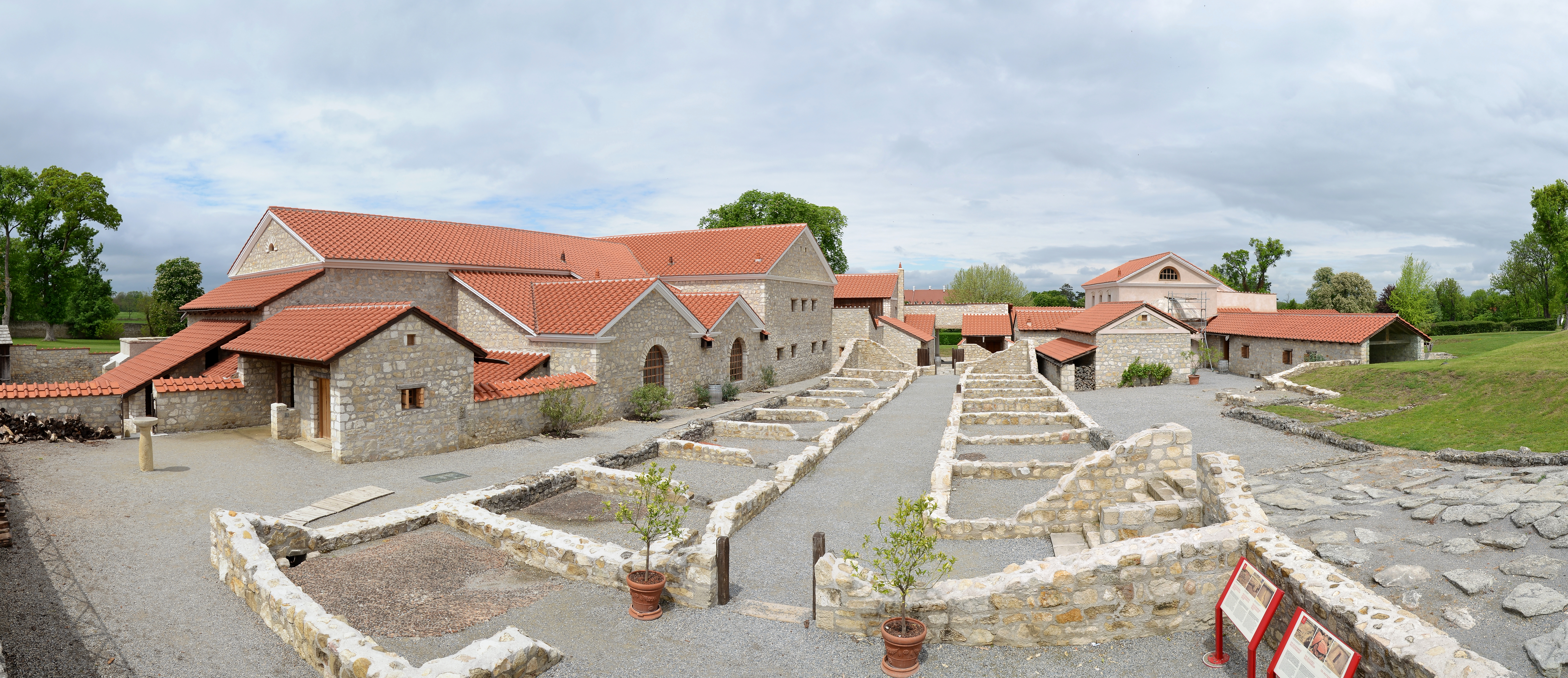 Open air museum Petronell - Thermae, Villa Urbana and Valetudinarium